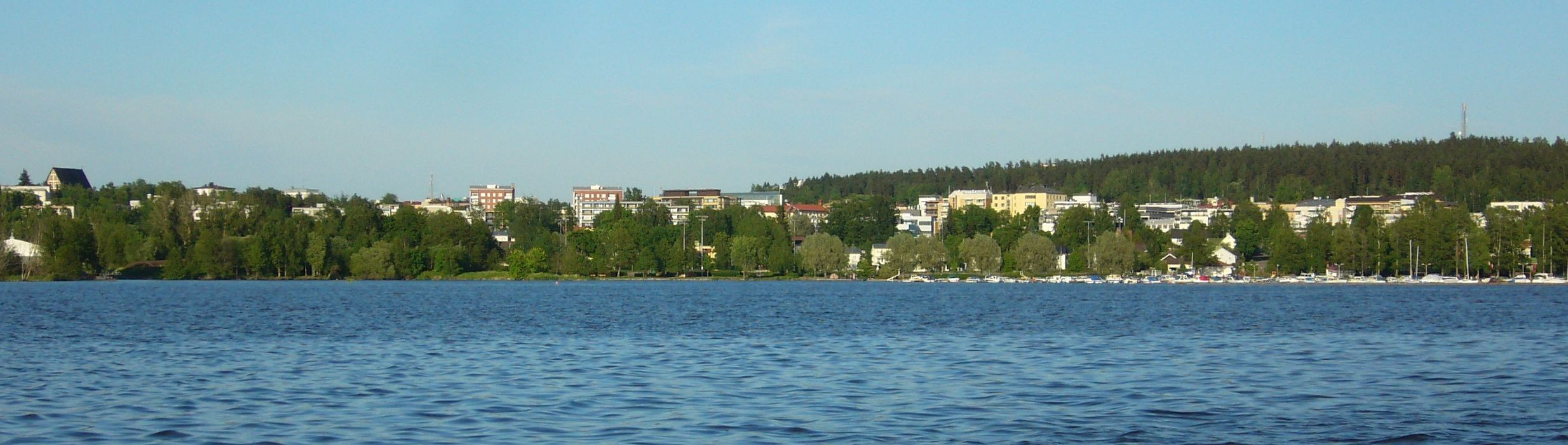 Lohja city photographed from Lake Lohja